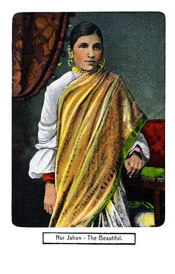 Nur Jehan